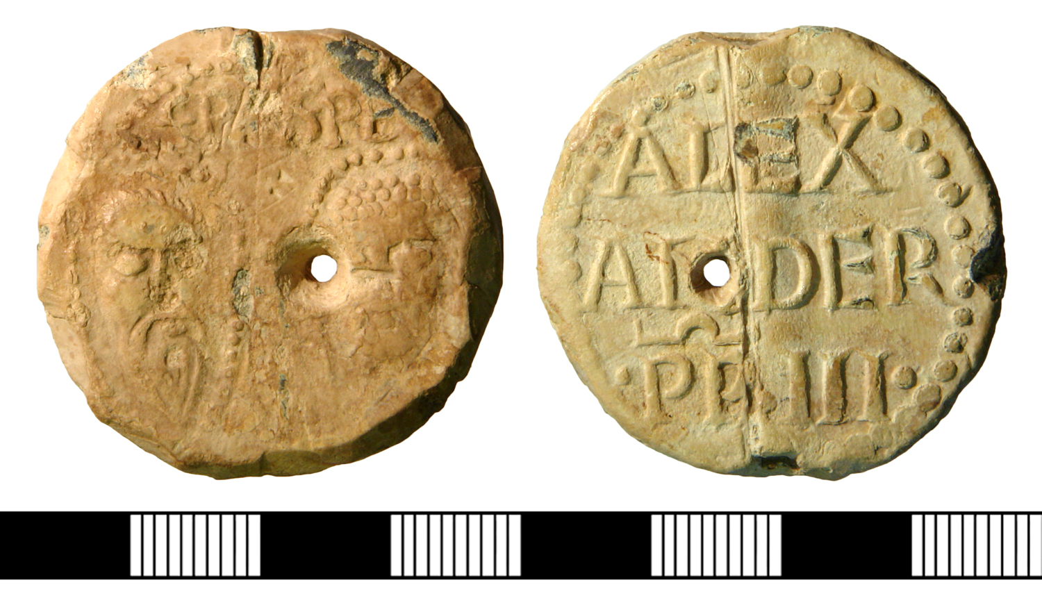 A complete medieval lead papal bulla of Pope Alexander III, c. 1159-81. On the obverse are the busts of St Peter and St Paul, each within a beaded border. Above the busts is the inscription SPA SPE. The reverse has the inscription of the pope ALEX/ANDER/PP.III. The edges of the bulla have sustained considerable damage and there is a hole in the centre (3.3mm) that has been drilled from both sides. The diameter is 35.7mm, the thickness is 6.4mm and the weight is 46.63g.